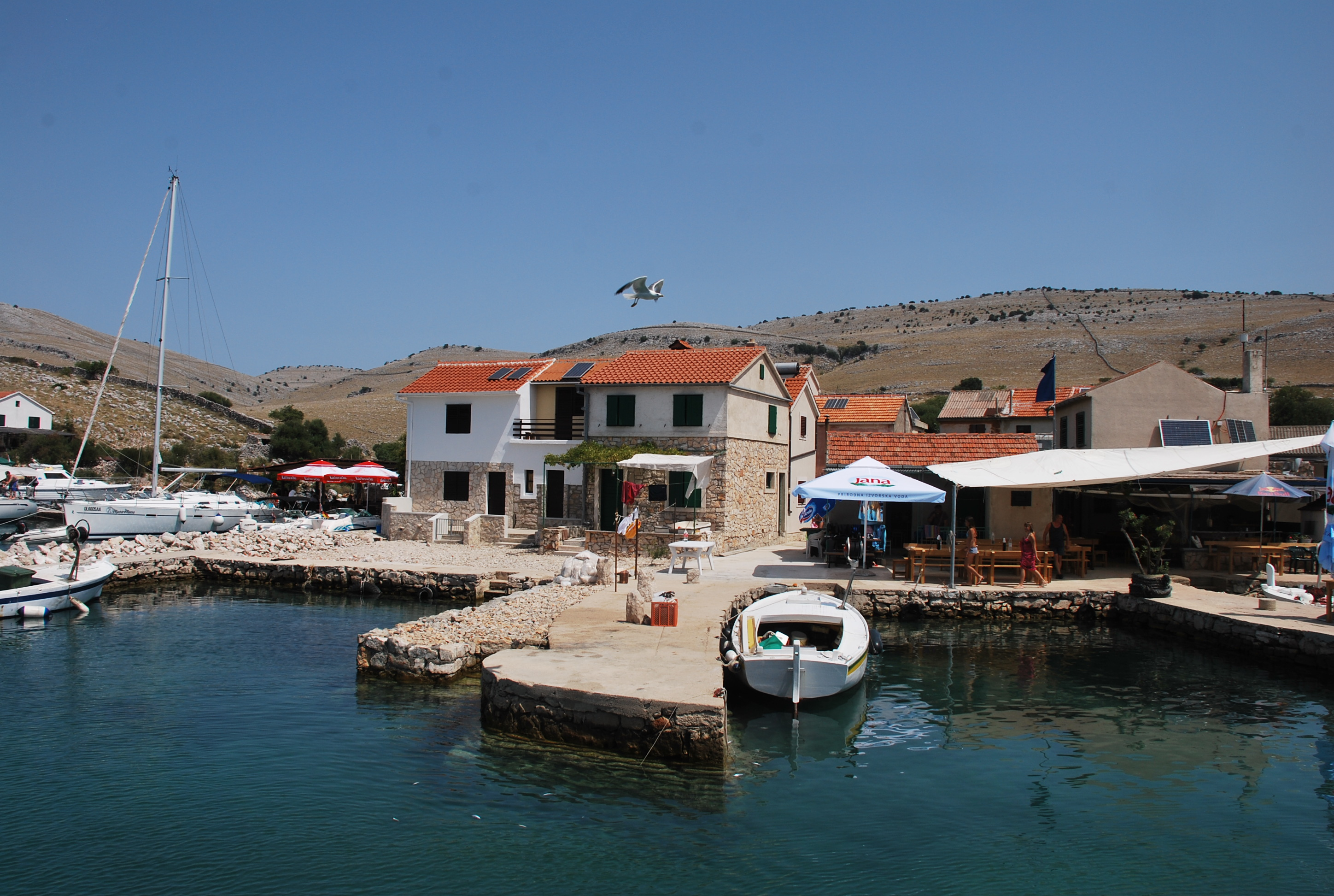 Vrulje National Park Kornati.